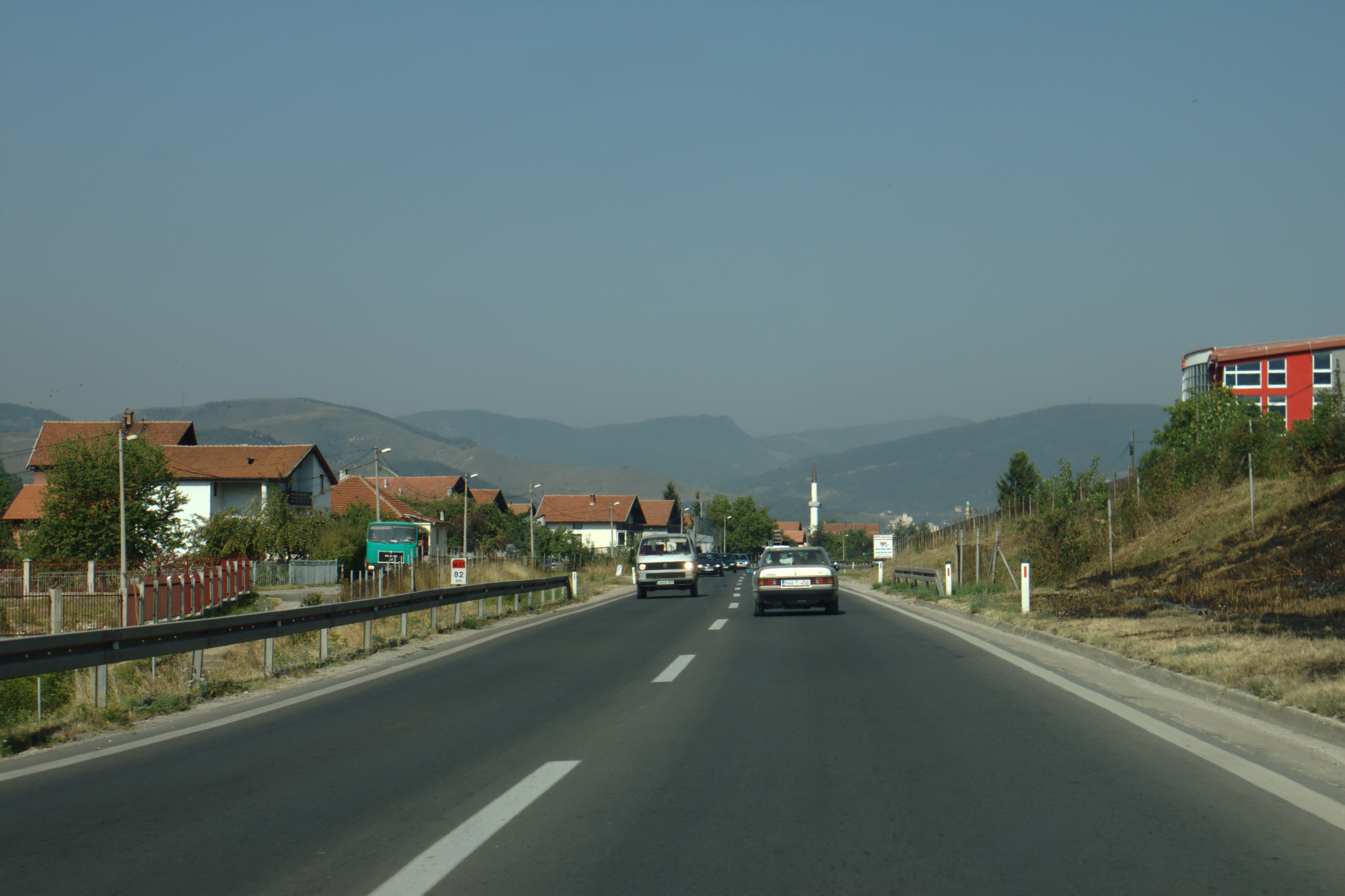 Main road in the Bosna River valley near Zenica, BiH